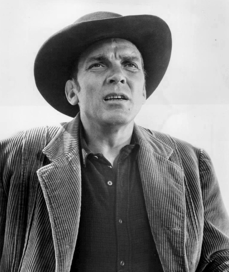 Photo of Walter Coy who was the narrator of the Western television series Frontier.